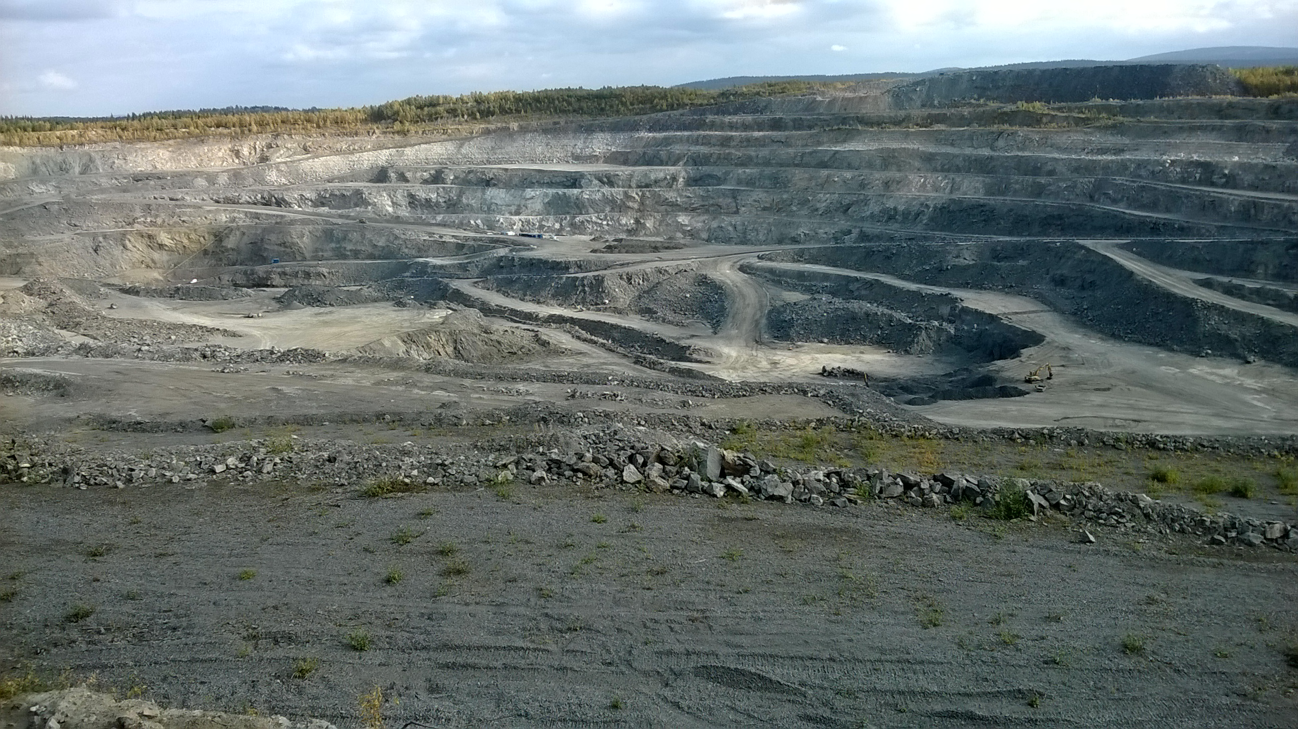 Leveäniemi Mine